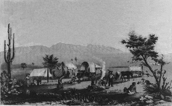 An 1857 drawing of an American wagon train and Maricopa native Americans at Maricopa Wells, Arizona. From the 1860 book "Reports of explorations and surveys, to ascertain the most practicable and economical route for a railroad from the Mississippi River to the Pacific Ocean" Written by the United States War Department authors Joseph Henry (1797-1878) and Spencer Fullerton Baird (1823-1887)